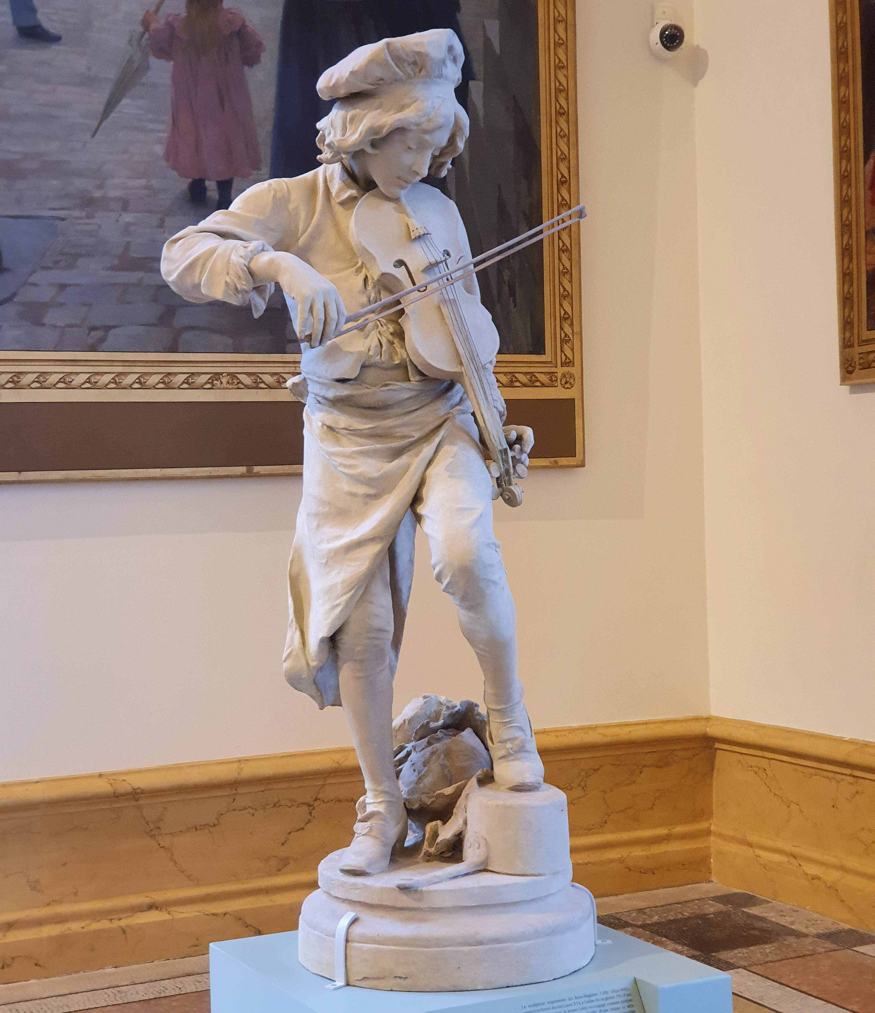 Adrien Gaudez - Lully enfant 1885 - Modèle en plâtre - Petit Palais - Paris